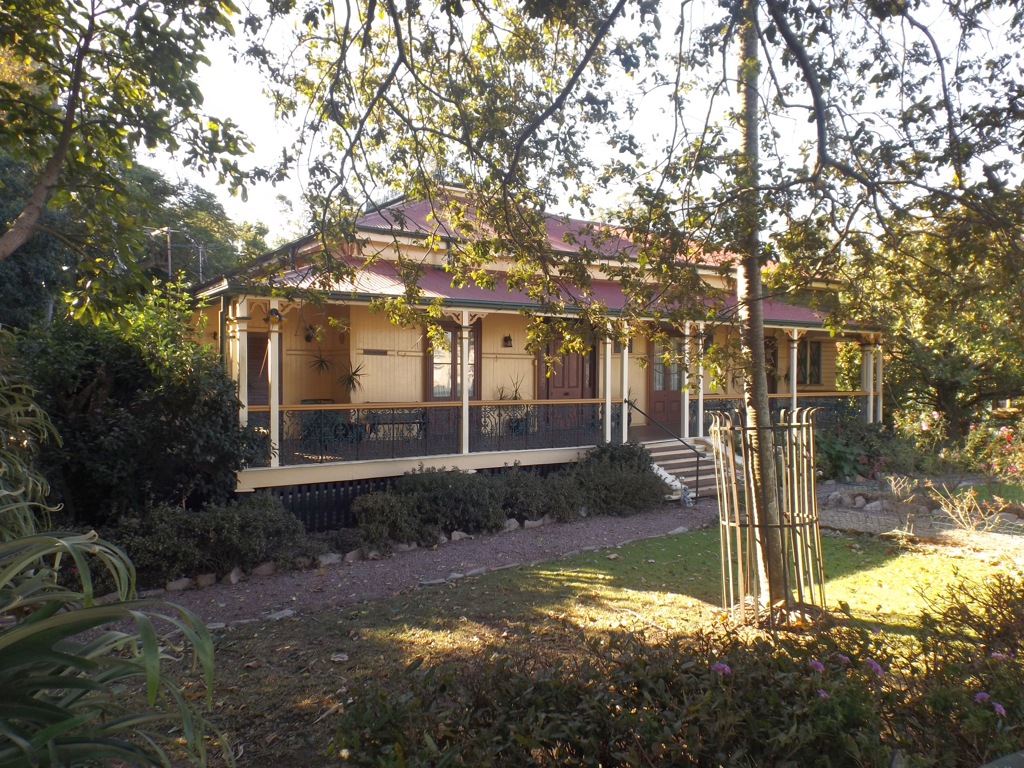 Photo of the Woodlands residence at Ashgrove, Brisbane, Queensland, Australia.